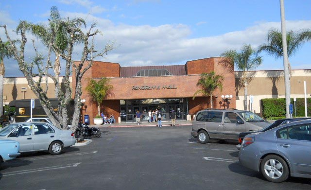 Panorama Mall entrance, Panorama City, California